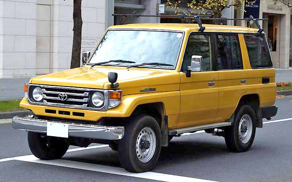 Toyota Land Cruiser 70 Van Semi-long wheelbase ( HZJ76HV )